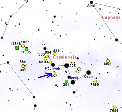 Map of NGC 457